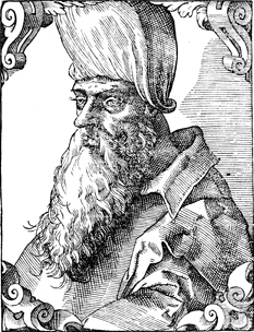 Portrait of Tumanbay II, last Mamluk Sultan of Egypt.